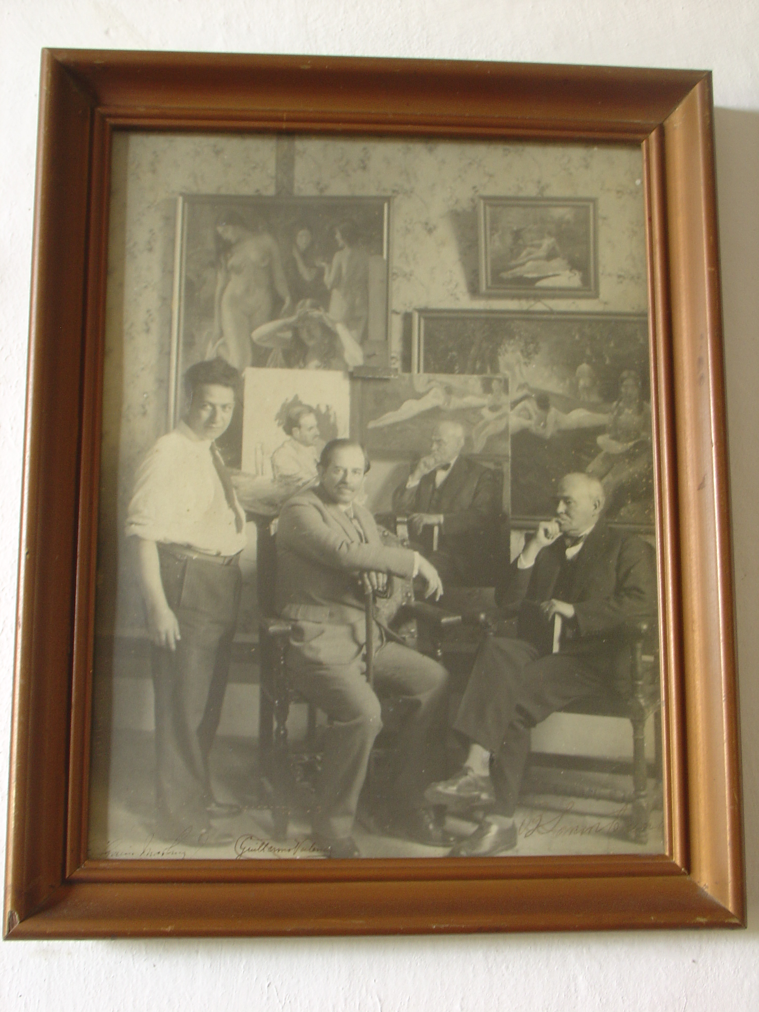 Photo of colombian painter Efraim Martinez, with poet Guillermo Valencia and Baldomero Sanin Cano